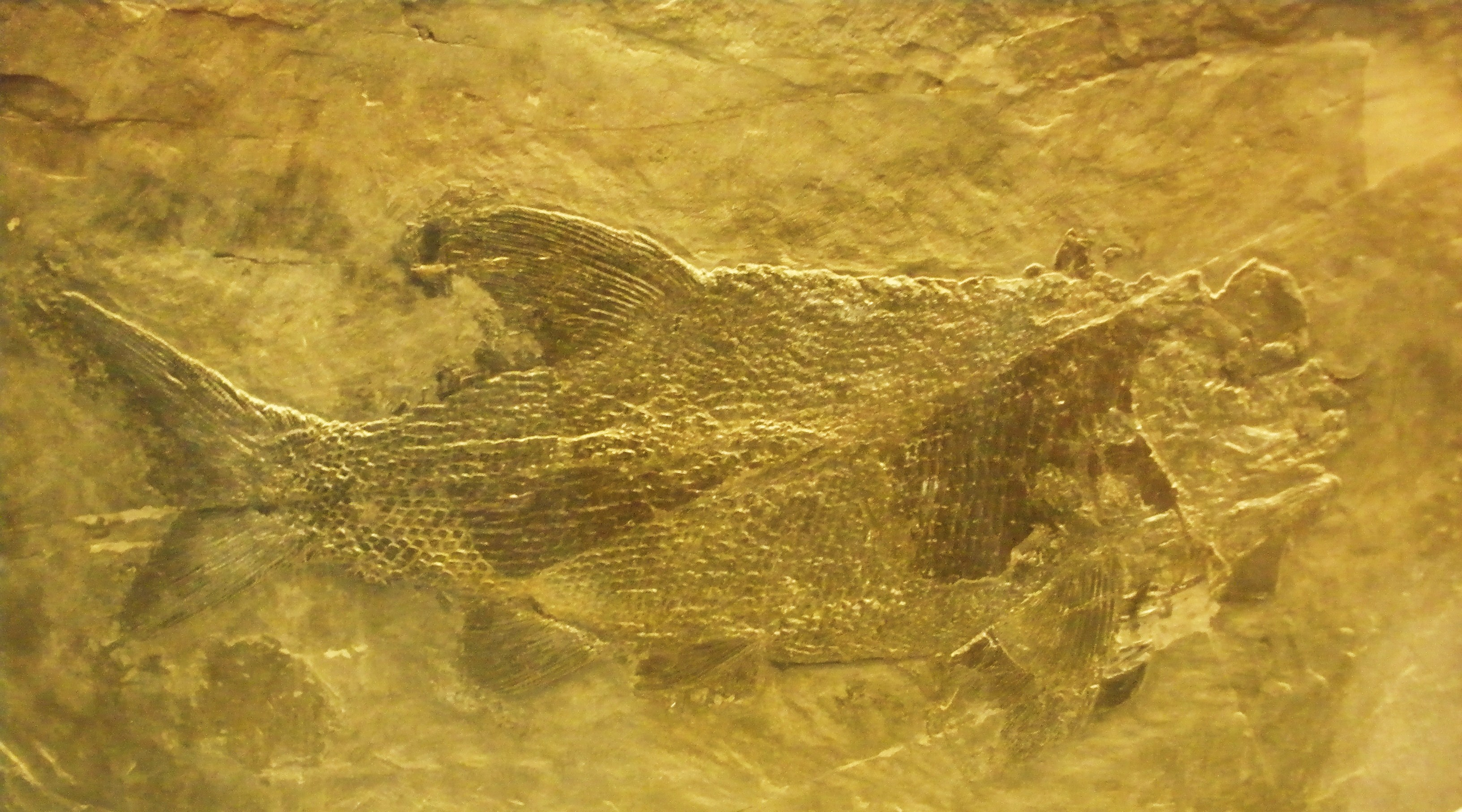 fossil Colobodus